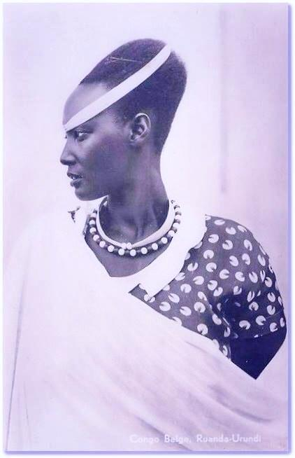 Princess Emma Bakayishonga of Rwanda, sister in law of Rosalie Gicanda